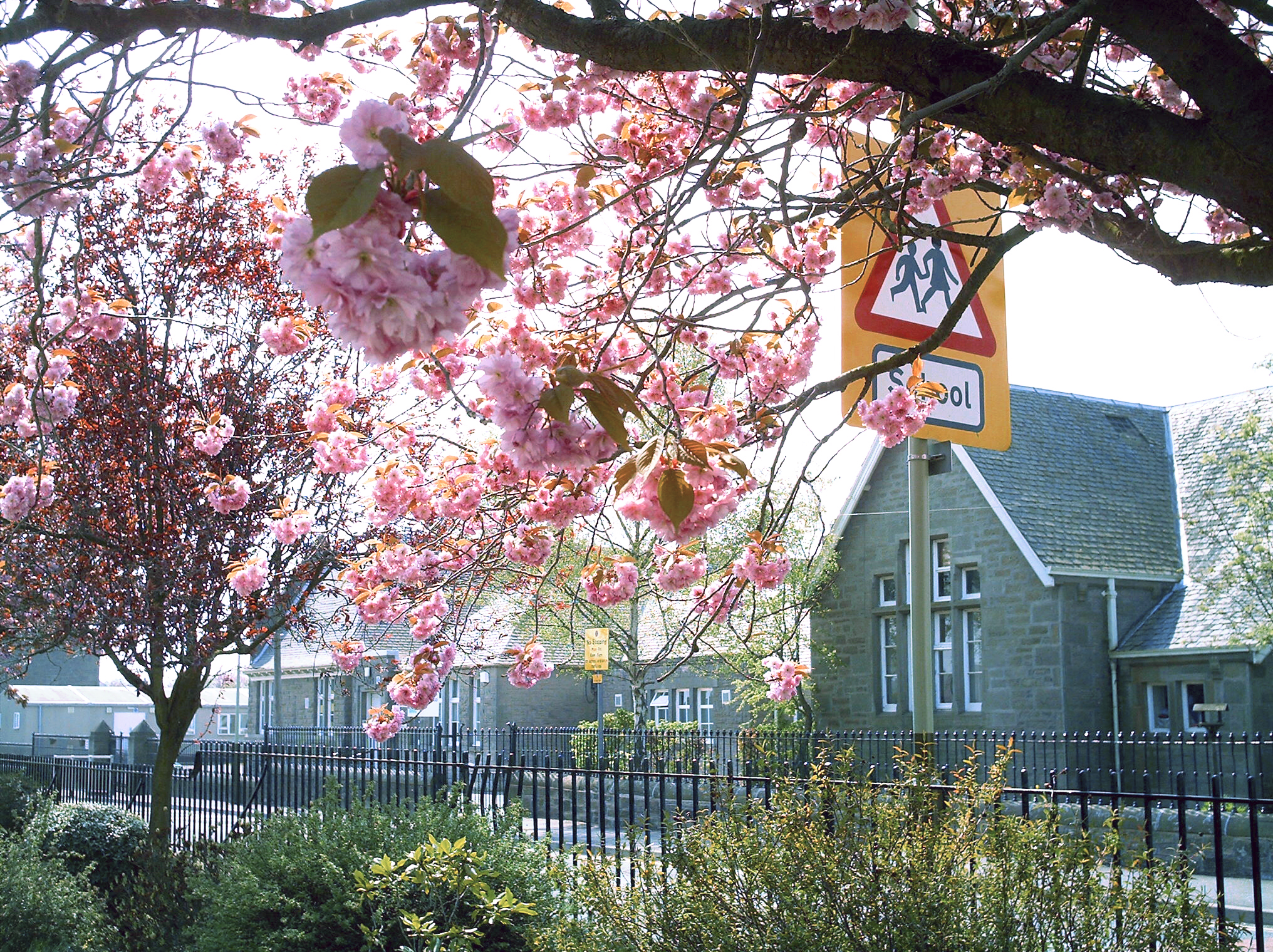 Invergowrie - Scotland - Perth and Kinross.